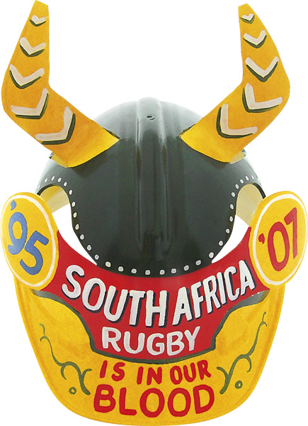 hand-made Makarapa